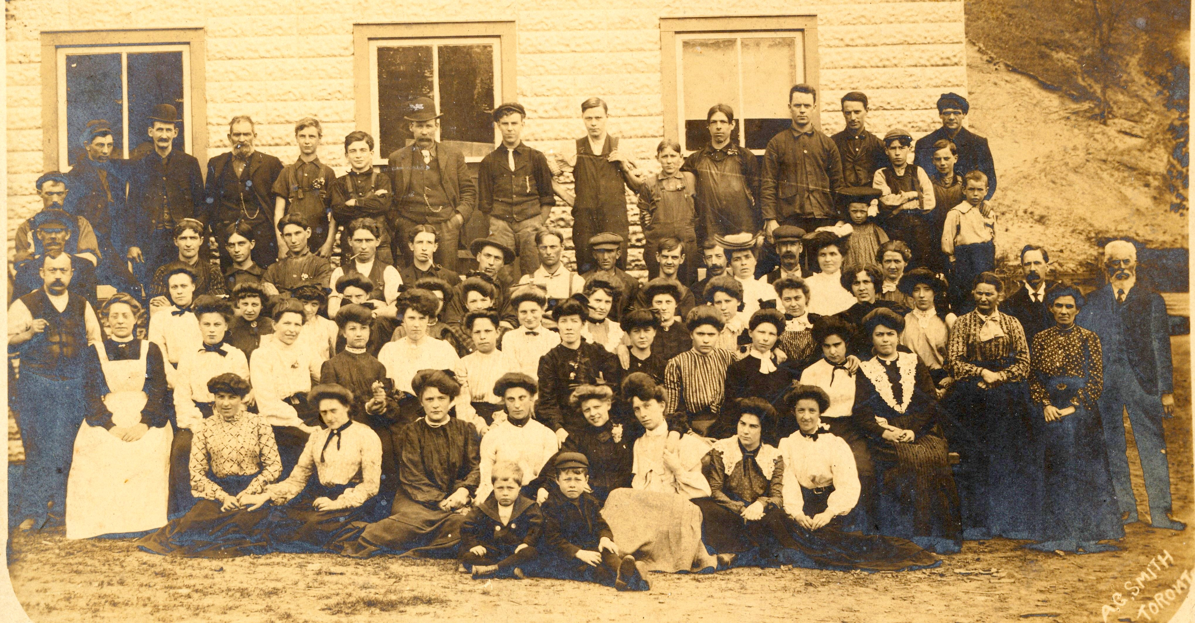 Beaumont Knitting Mill workers - Glen Williams, Ontario - 1893 - Lindley Beaumont 3rd from right, back.